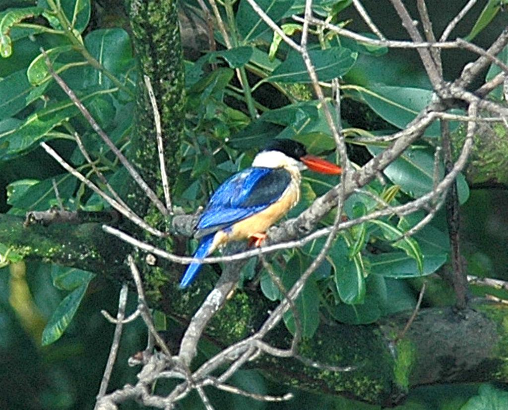 Black-capped Kingfisher Halcyon pileata, Chinese Gardens, Singapore